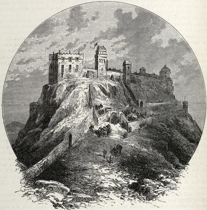 Impression of Edinburgh Castle before the 'Lang Siege' of 1573 "On the fore parte estwarde next the town stands like 80 foot of the haule and next unto the same stands Davyes Towre, and from it a courteen [curtain wall] with 6 cannons ... and behend the same standes another teer of ordnance like 16 foot clym above the other; and at the northe end stands the Constable's Towre, and in the bottom of the same is the way into the Castle with forty steps." -- A Survey of the Castle and towne of Edinburgh, Jan. 1572-3, published in the Bannatyne Club Miscellany